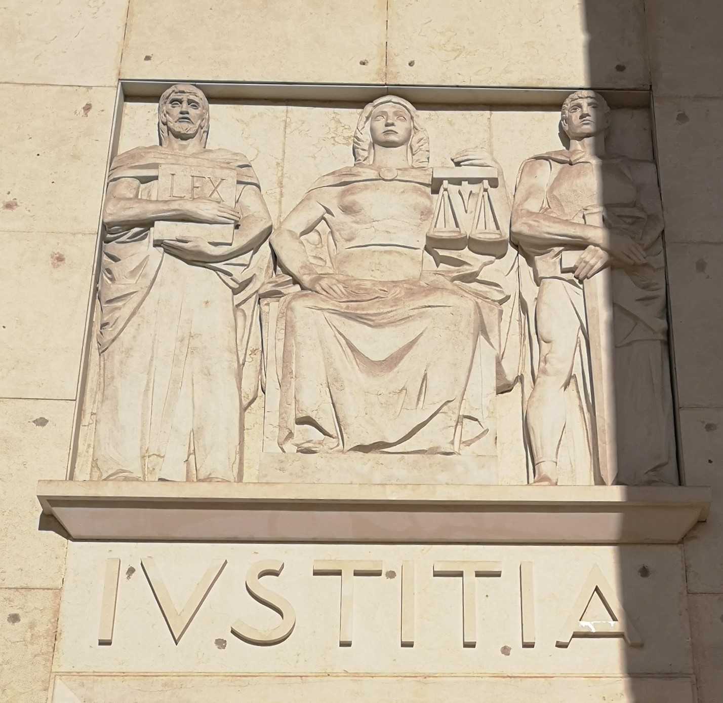 Justitia bas-relief on Bozen-Bolzano's courthouse 1939